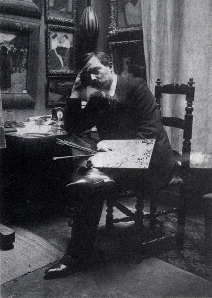 Portait of the french Impressionist Fernand Piet in his atelier on Rue Lamarck